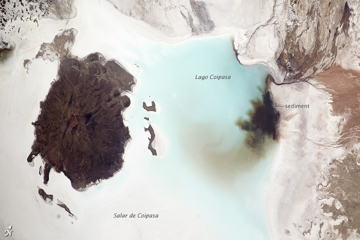 Salar de Coipasa, Bolivia